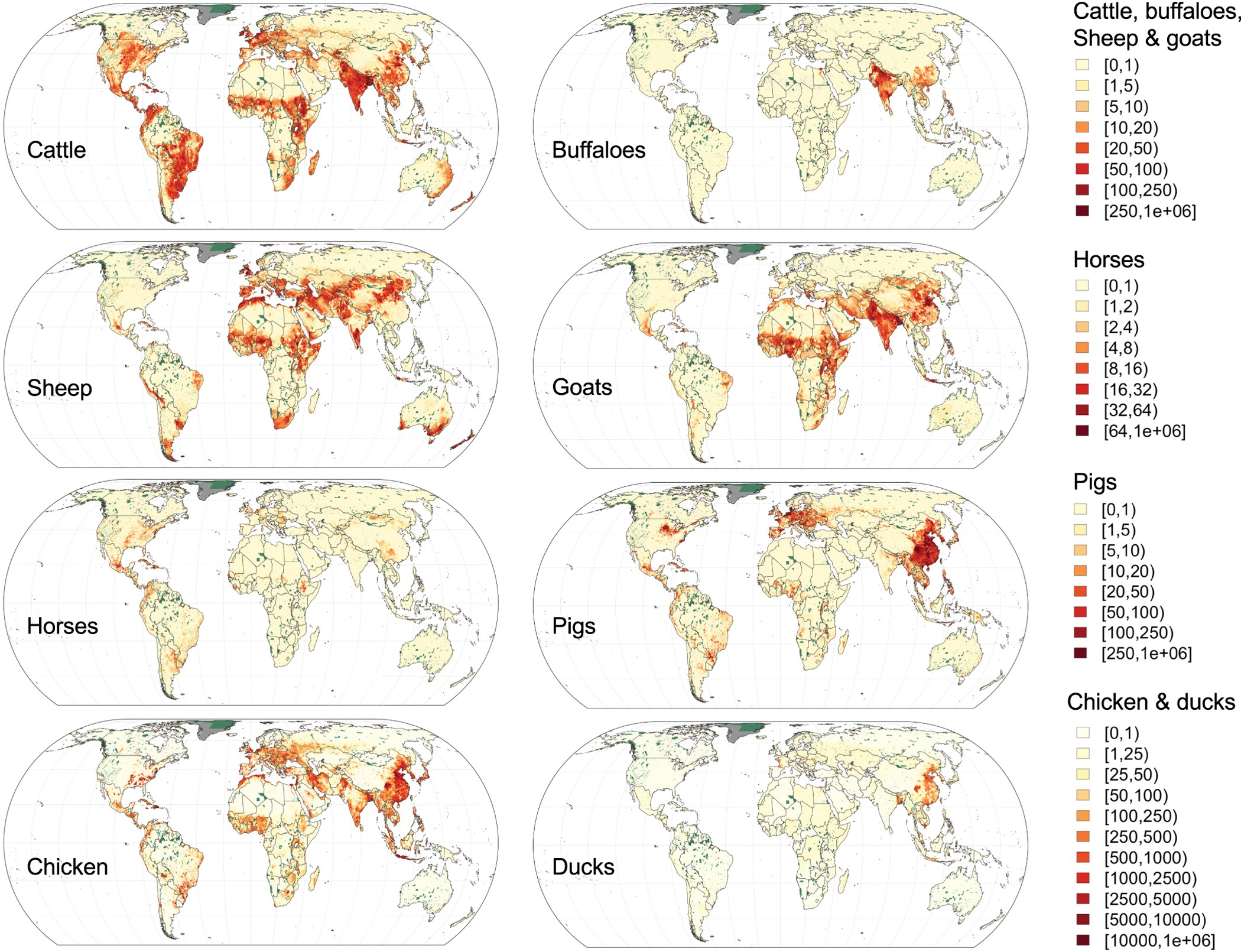 Overview of the Gridded Livestock of the World (GLW 3) data sets for cattle, buffaloes, sheep, goats, horses, pigs, chickens and ducks, based on the dasymetric model.